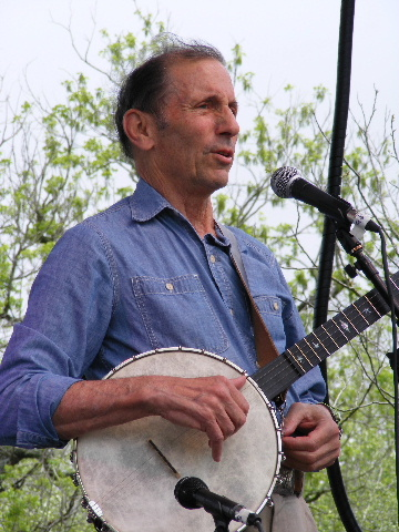 Warren Hellman performing with his band The Wronglers at Old Settler's Music Festival in Driftwood, Texas (2010). Photo by Ron Baker.